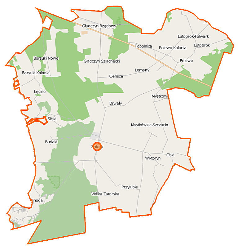 Map of Gmina Zatory, Poland This map of Zatory (gmina) was created from OpenStreetMap project data, collected by the community. This map may be incomplete, and may contain errors. Don't rely solely on it for navigation. Border coordinates52.684921.0975←↕→21.312452.5505